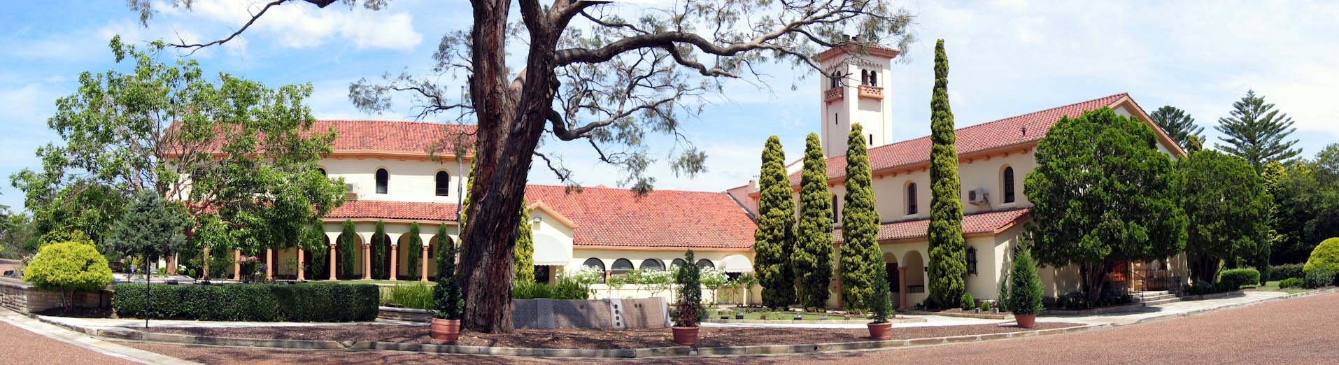 Crematorium view of north side of complex. East Chapel to the left, North Chapel to the right.